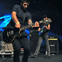 Christopher Watson performing at The Atlantis Theatre. Also Pictured, Billy Sheehan (Mr. Big, David Lee Roth, Steve Vai)